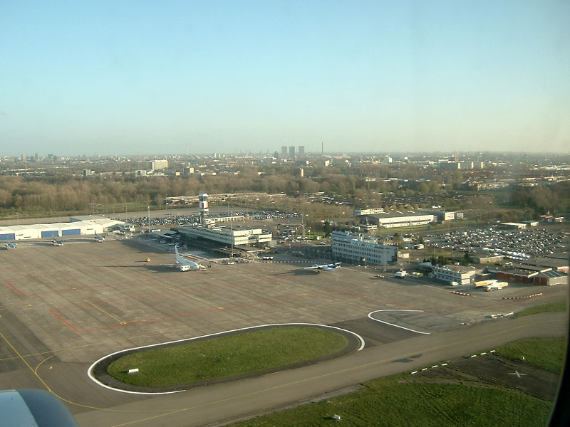 Rotterdam Airport, photo taken shortly after takeoff